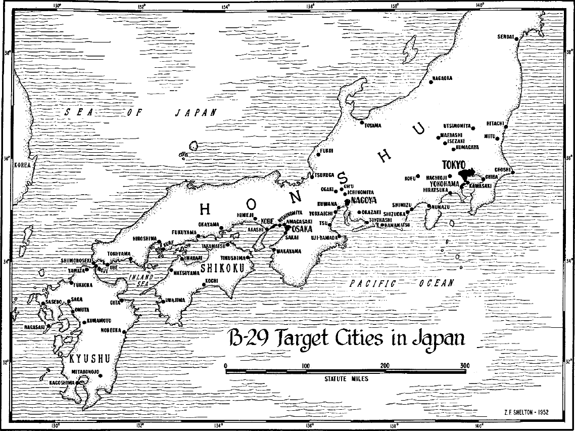 Map of Japan showing the cities attacked by United States Army Air Forces B-29 bombers during World War II